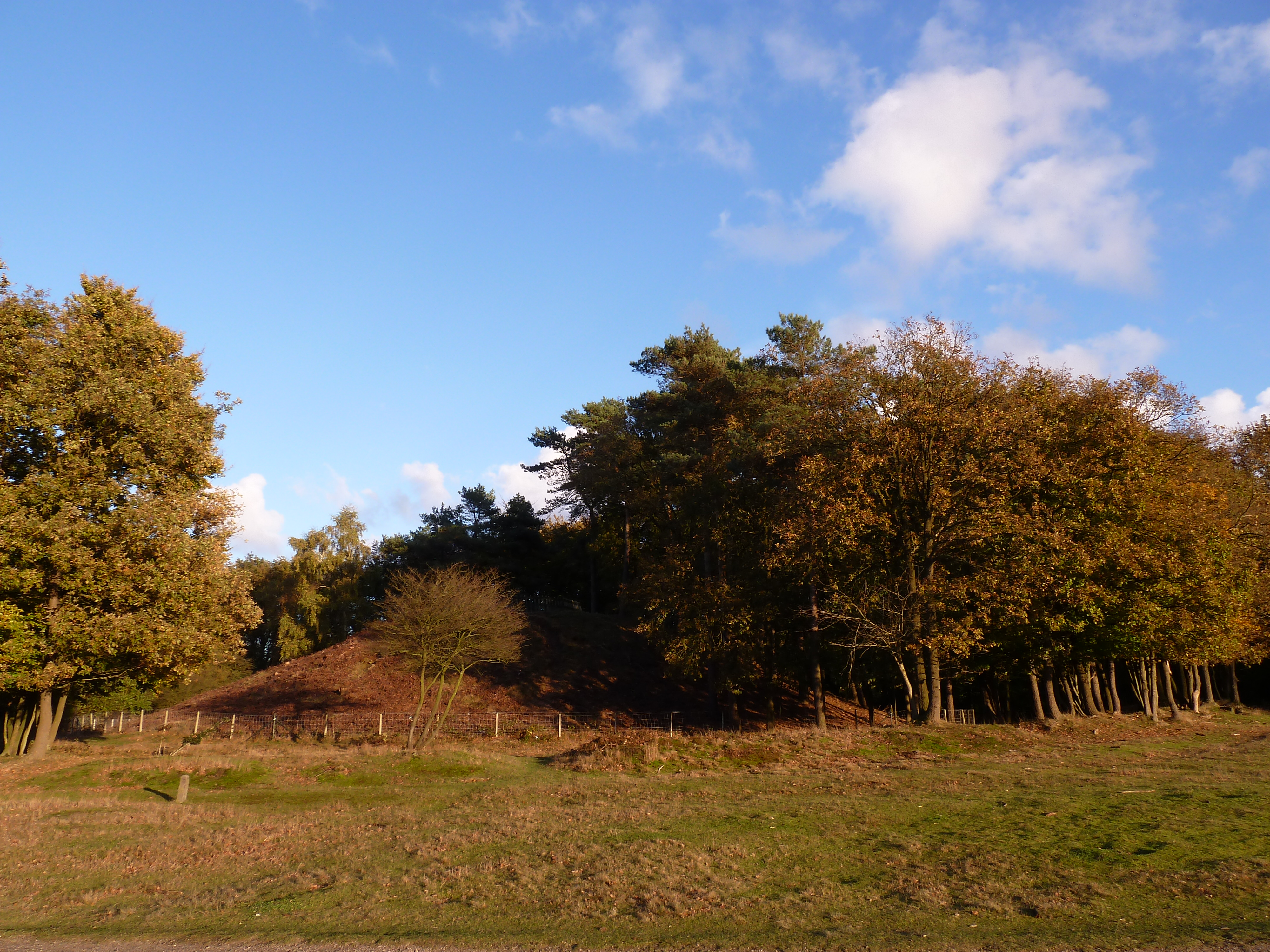 The table mountain "Tafelberg" between Blaricum and Huizen, het Gooi, Netherlands